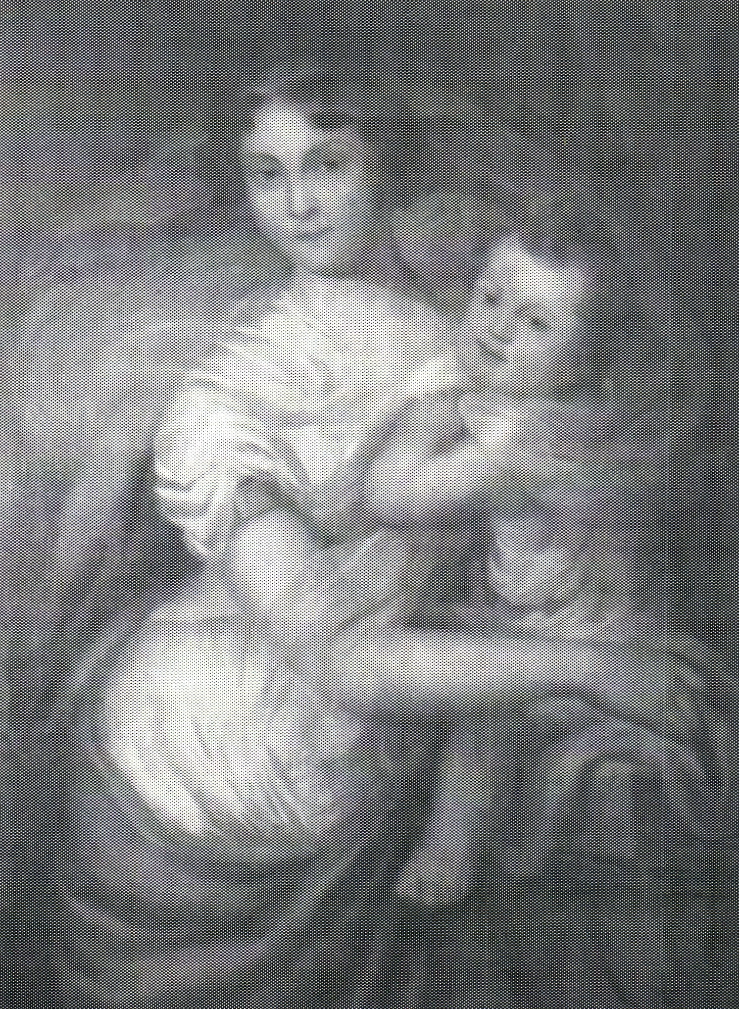 Helena Krukowiecka with her son (Konstanty?)